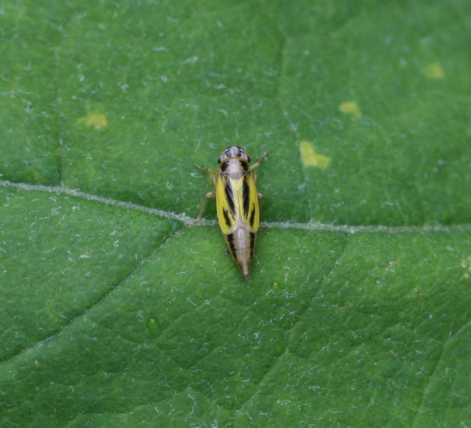 Female Evacanthus interruptus, a species of Leafhopper